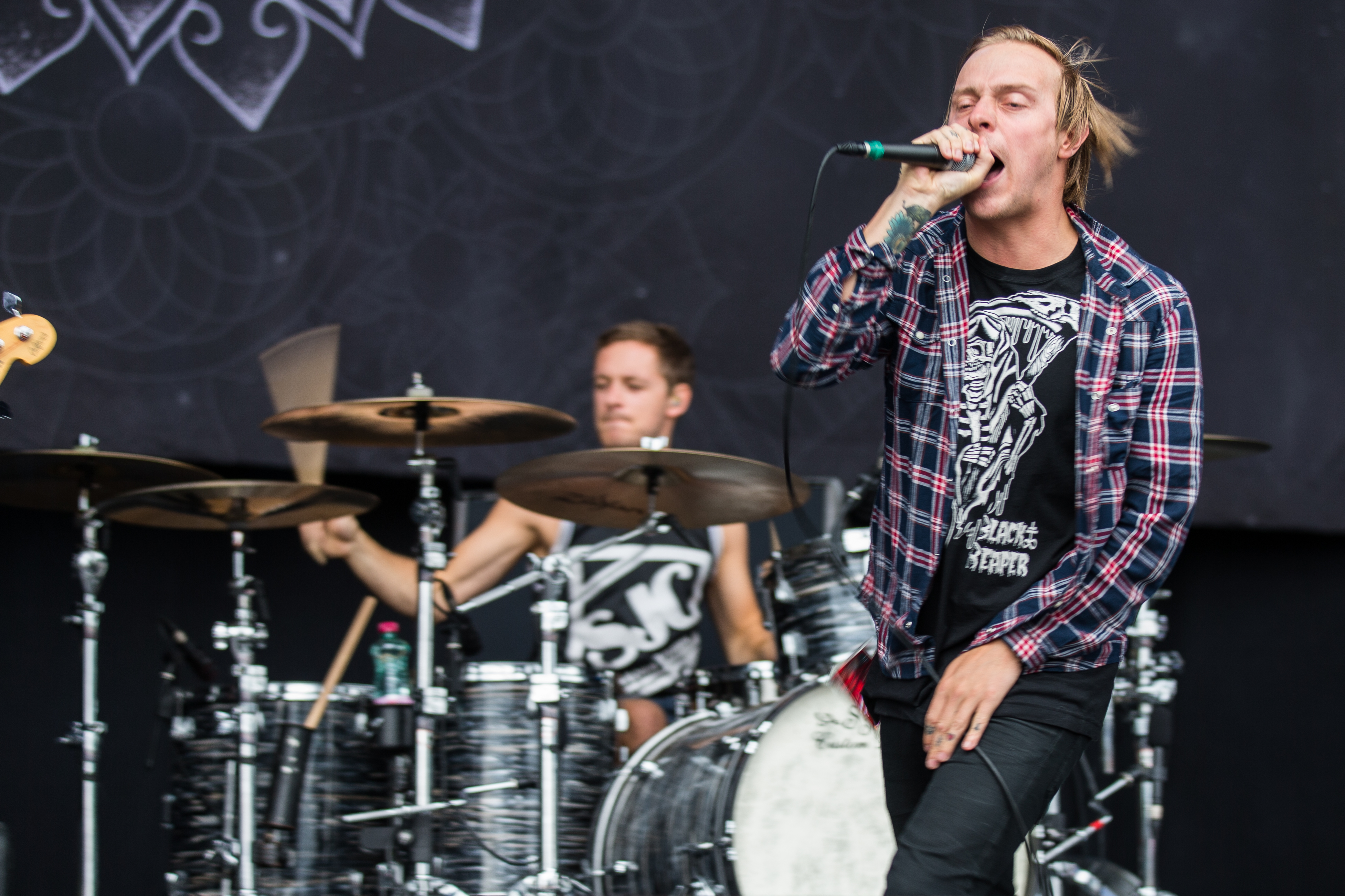 Rock'n'Heim Rock Festival Hockenheim August 2014